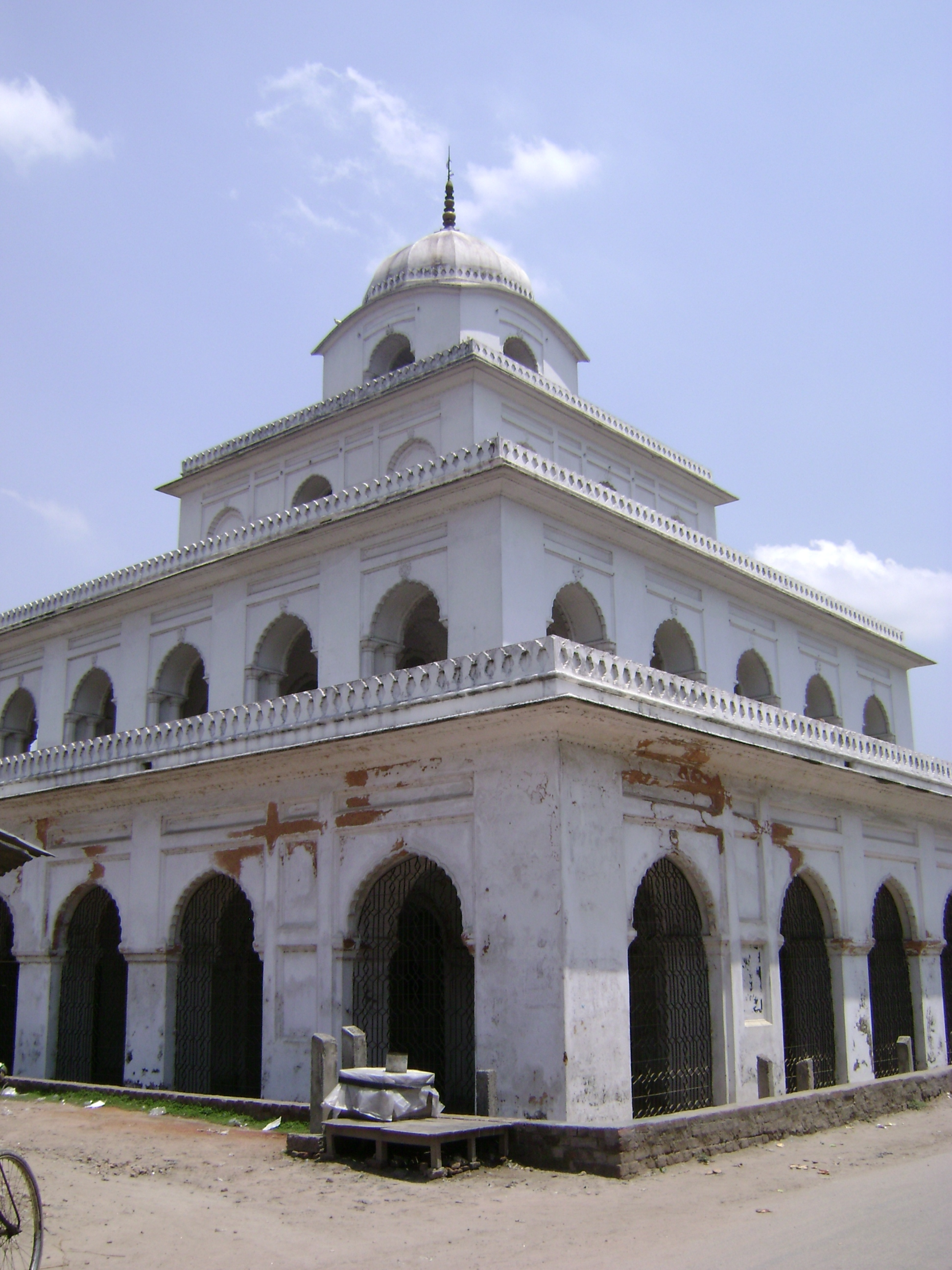 Dol Moncho, in the grounds near the Puthia Rajbari, Chapai Nababgonj, Bangladesh